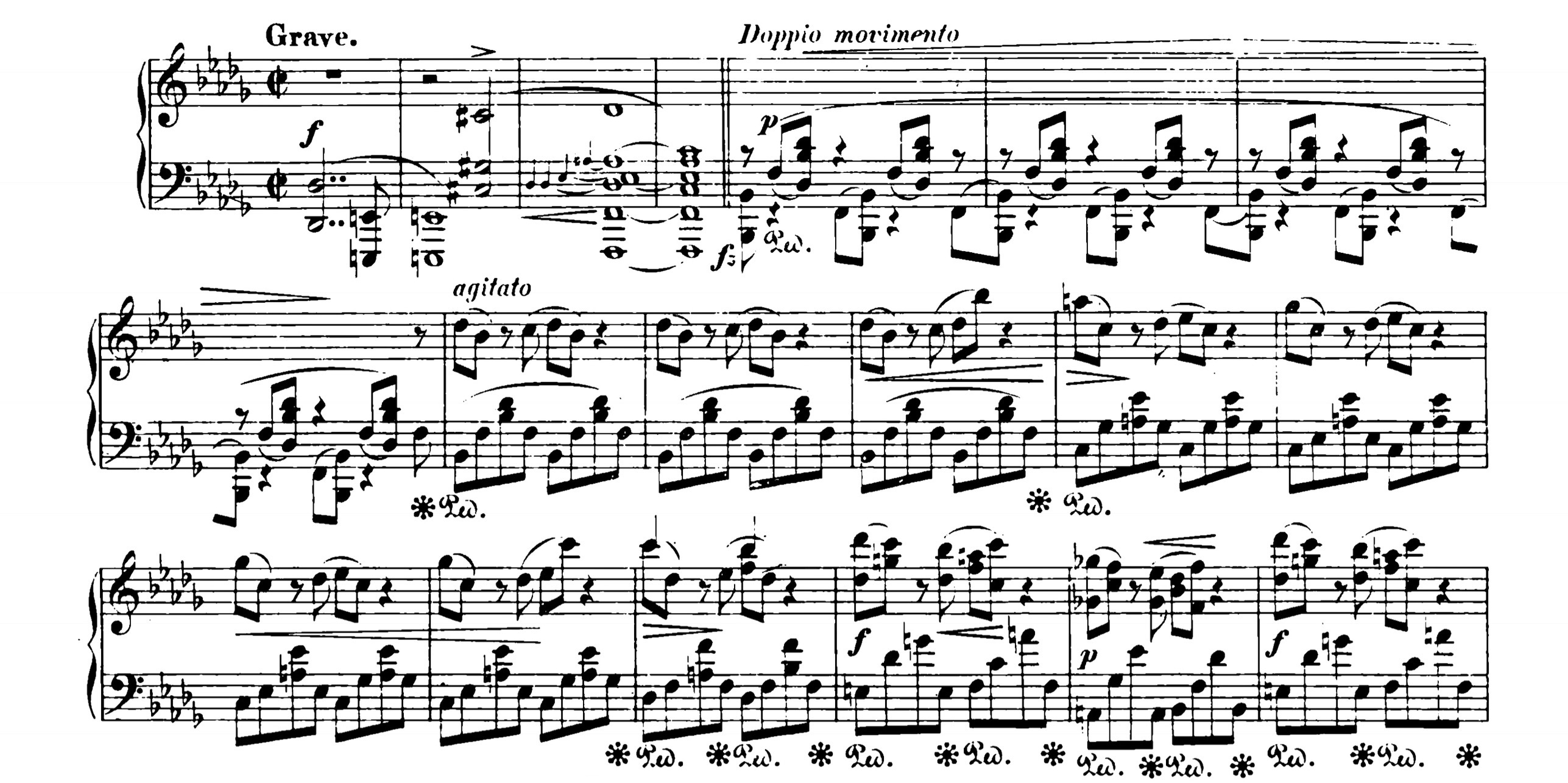 Breitkopf edition of the beginning of the opening movement of the Chopin Sonata No. 2 in B-flat minor, Op. 35.